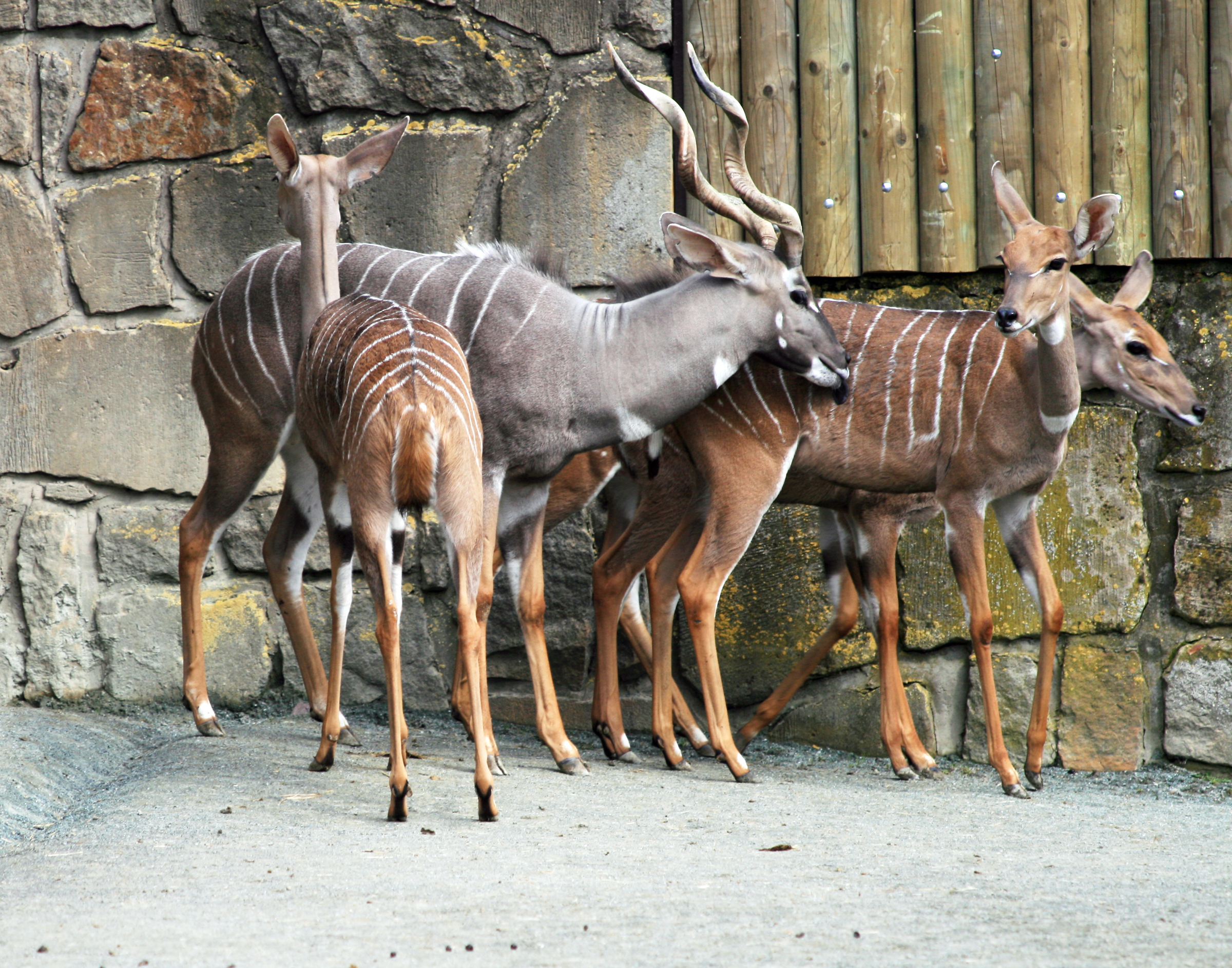 Lesser Kudu, Tragelaphus imberbis in ZOO Dvůr Králové, Czech Republic